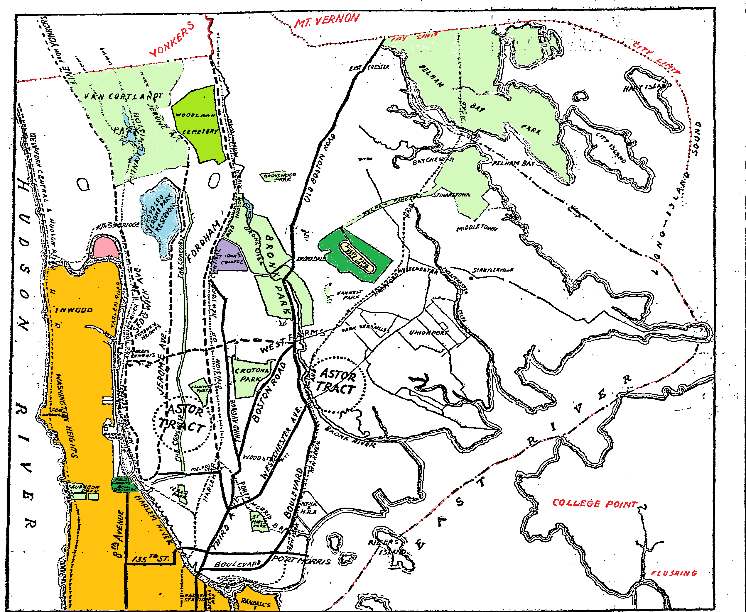 "Map Showing Transit Facilities in the Annexed District" (the Bronx joined New York City in 1874-95, before Queens, Brooklyn and Staten Island in 1898) from a long article in The New York Times of Wednesday, May 17, 1896 (page 15) headlined: "FUTURE OF NEW WARDS; New-York's Possession in Westchester County Rapidly Developing. TROLLEY AND STEAM ROAD SYSTEMS Vast Areas Being Brought Close to the Heart of the City -- Miles of New Streets and Sewers. BOTANICAL AND ZOOLOGICAL GARDENS. Advantages That Will Soon Relieve Crowded Sections of the City of Thousands of Their Inhabitants." Original in black and white, tinted to show the following: light green: Parks; medium green: Woodlawn Cemetery; dark green: Sports facilities; light blue: proposed Jerome Park Reservoir; violet: St. John's College (now Fordham University); orange: Manhattan and New York City before 1874; pink: Marble Hill, an area that remained in Manhattan after being separated by water; red line: City Limits of New York in 1896.